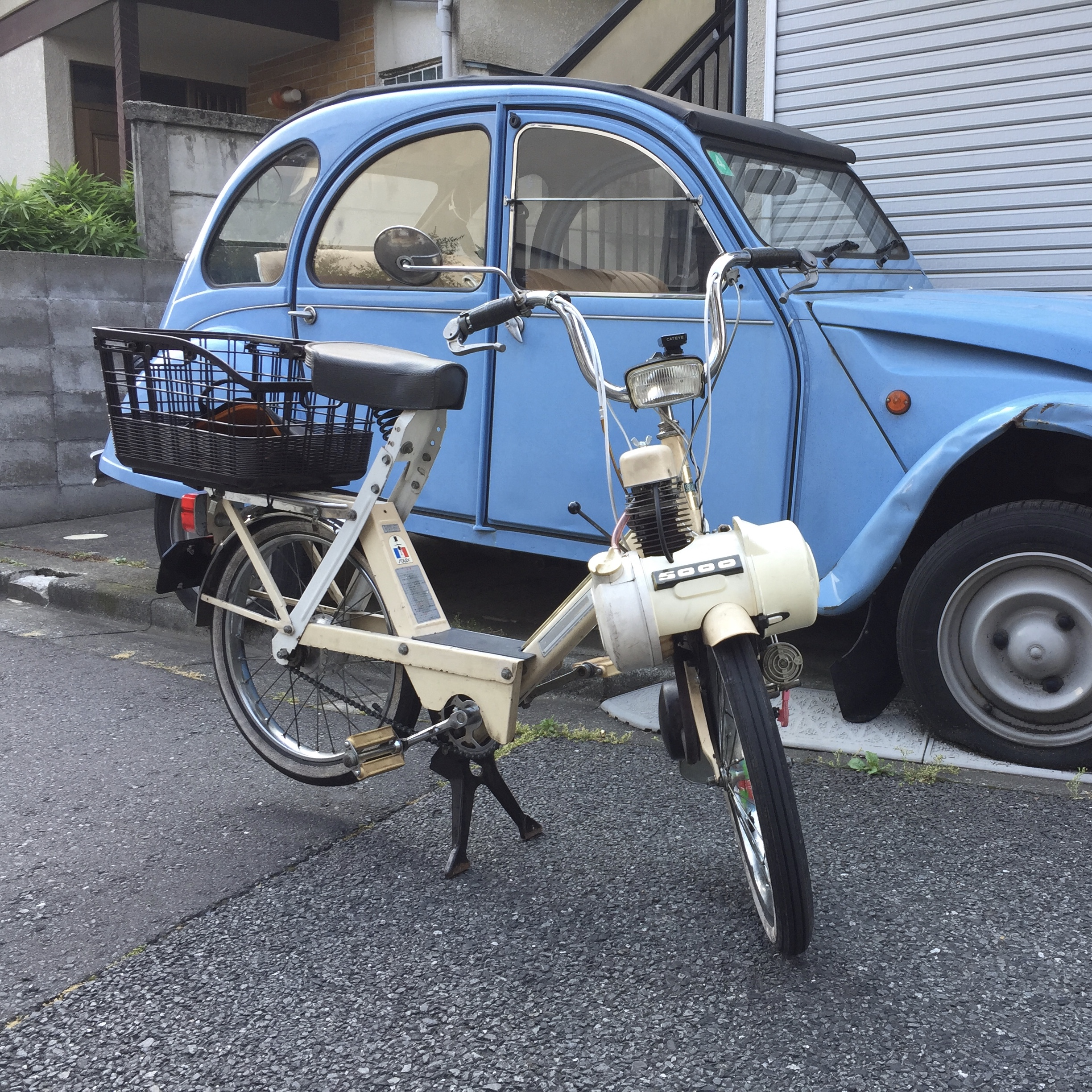 Difference from French. Has restricted engine, shape of tail lamp, shape of chain wheel guard.